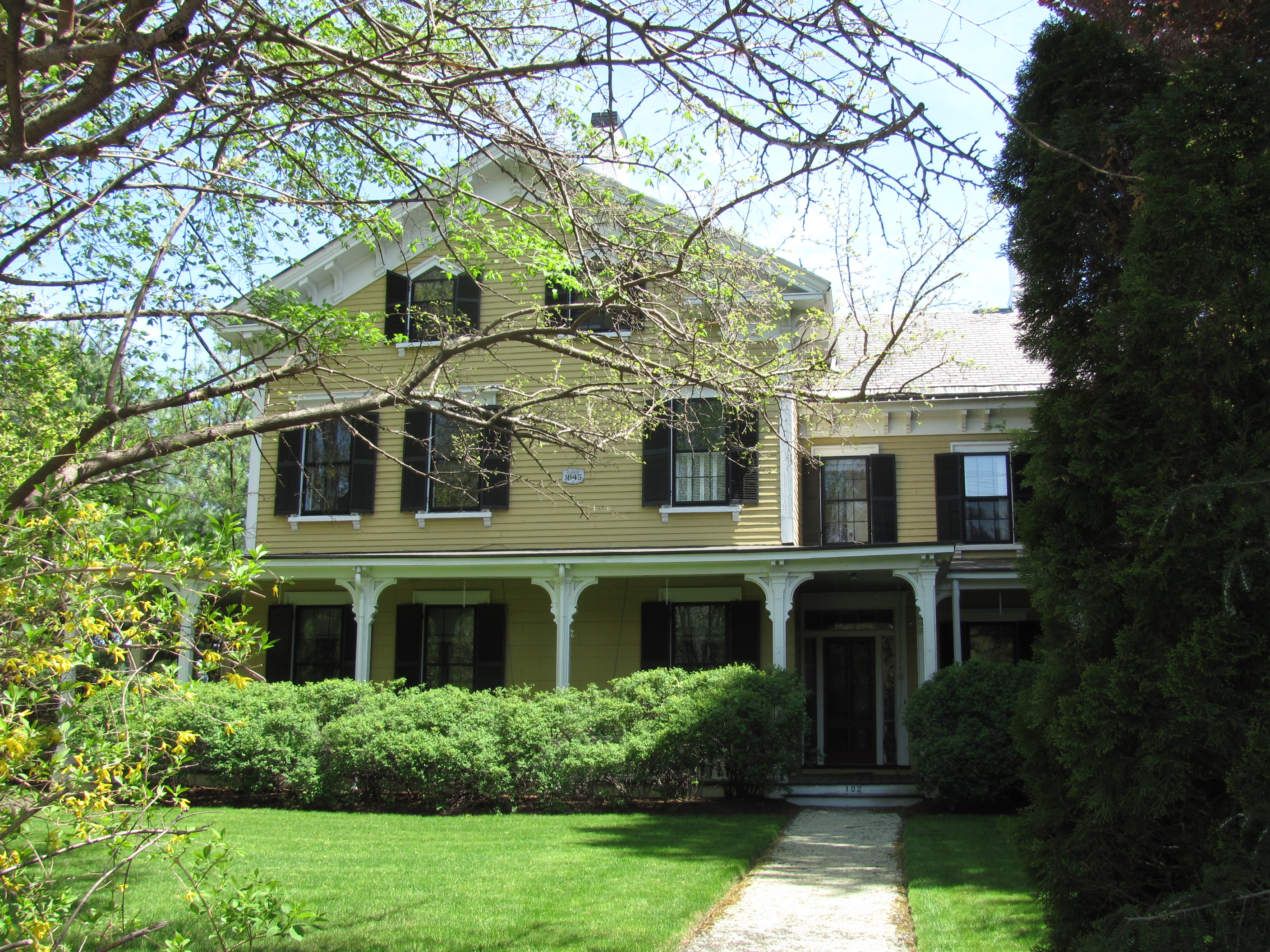 Galen Merriam House, West Newton Massachusetts